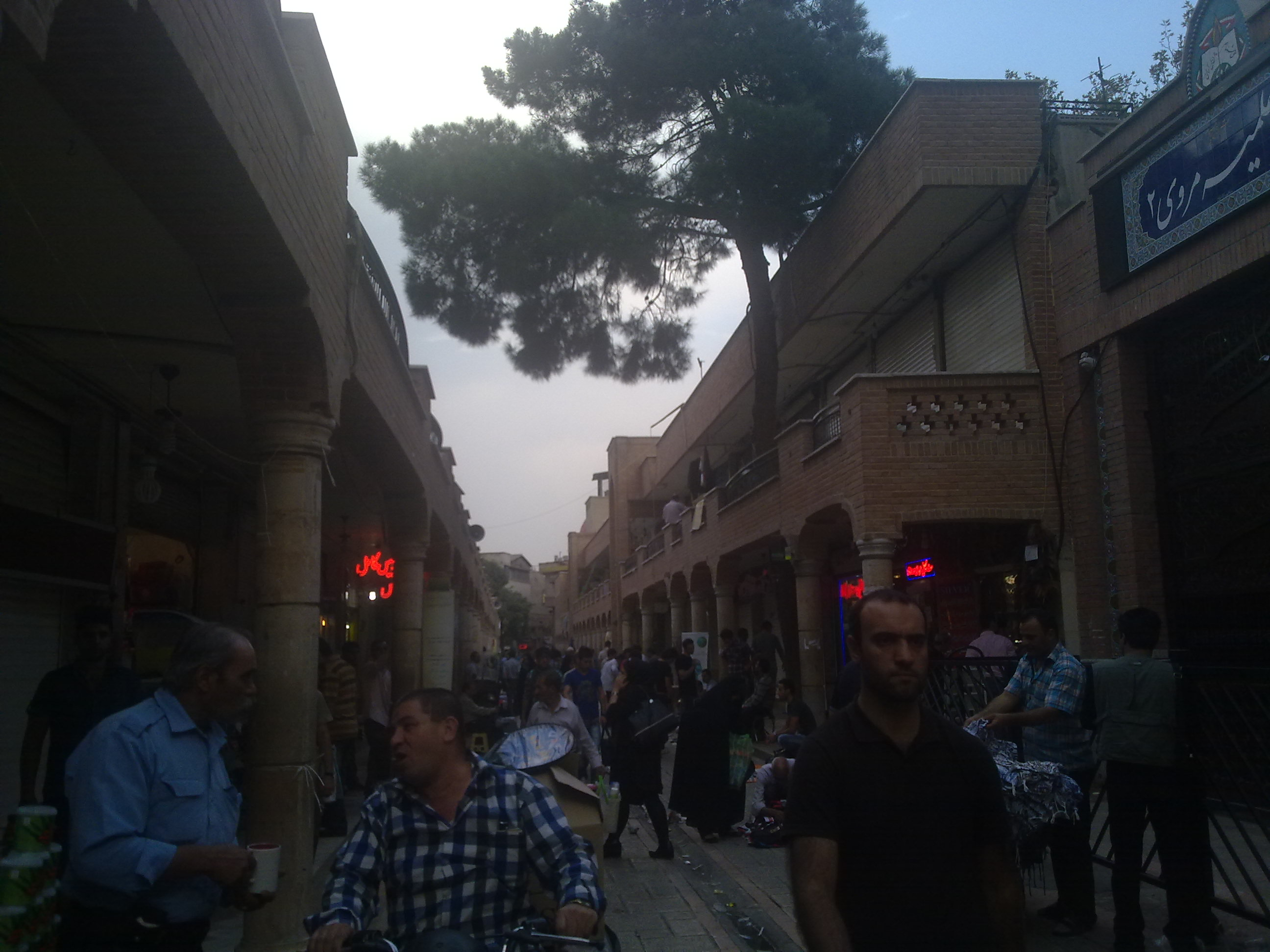 Kooche Marvi with a half view of Hoze Elmie Marvi 2's facade.